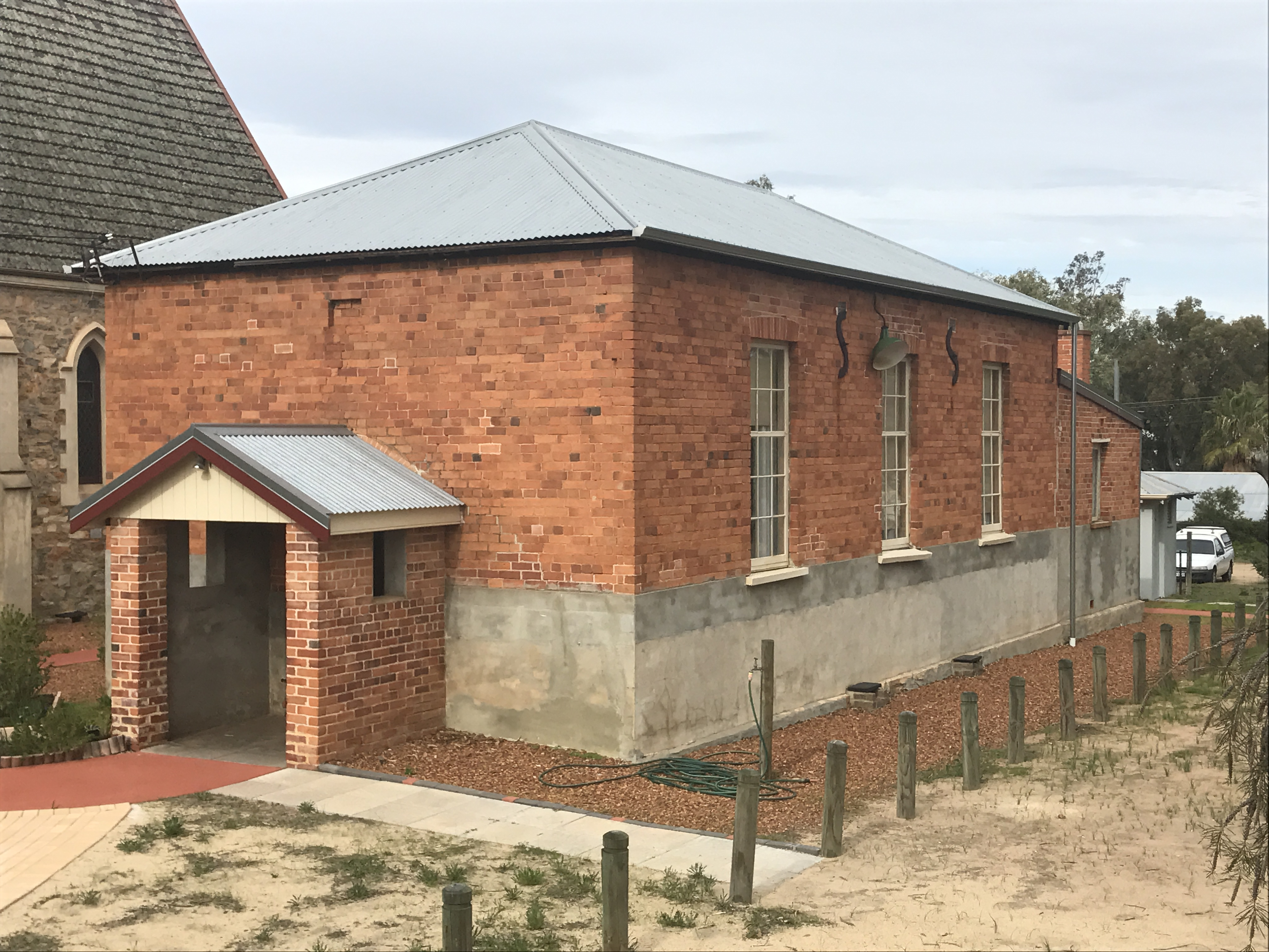 Wesleyan Chapel, York